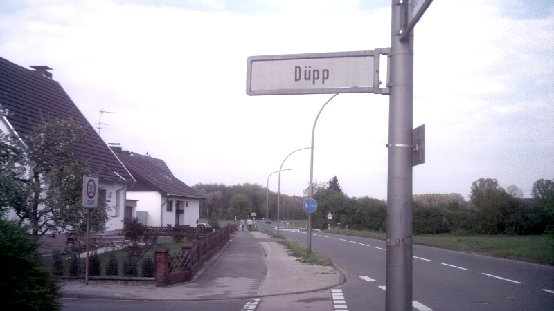 Street sign in Düpp, Viersen, Germany